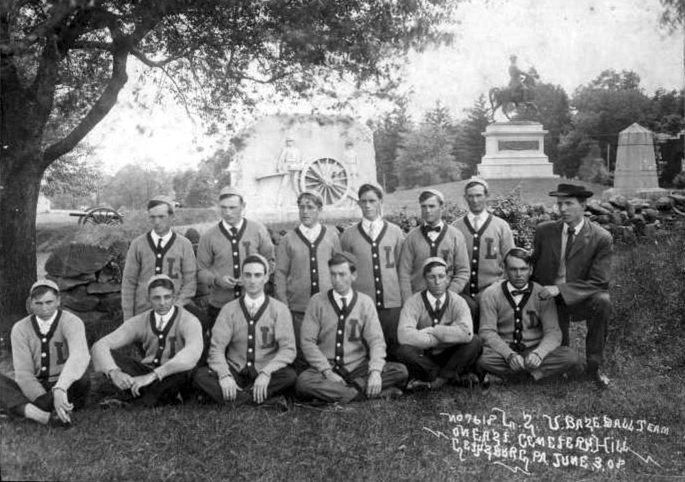 Photo of 1908 LSU Baseball Team in Gettysburg, PA.=Licensing=